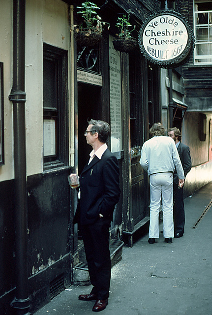 Ye Old Cheshire Cheese The entrance to the pub is in Wine Office Court. Here, some lunchtime customers enjoy a lunchtime pint on a warm summer's day. The large white sign next to the door lists the Kings and Queens that have sat on the throne since the pub was rebuilt in 1667. There have been few changes inside, except for a new basement bar which was built in response to the pub's popularity.